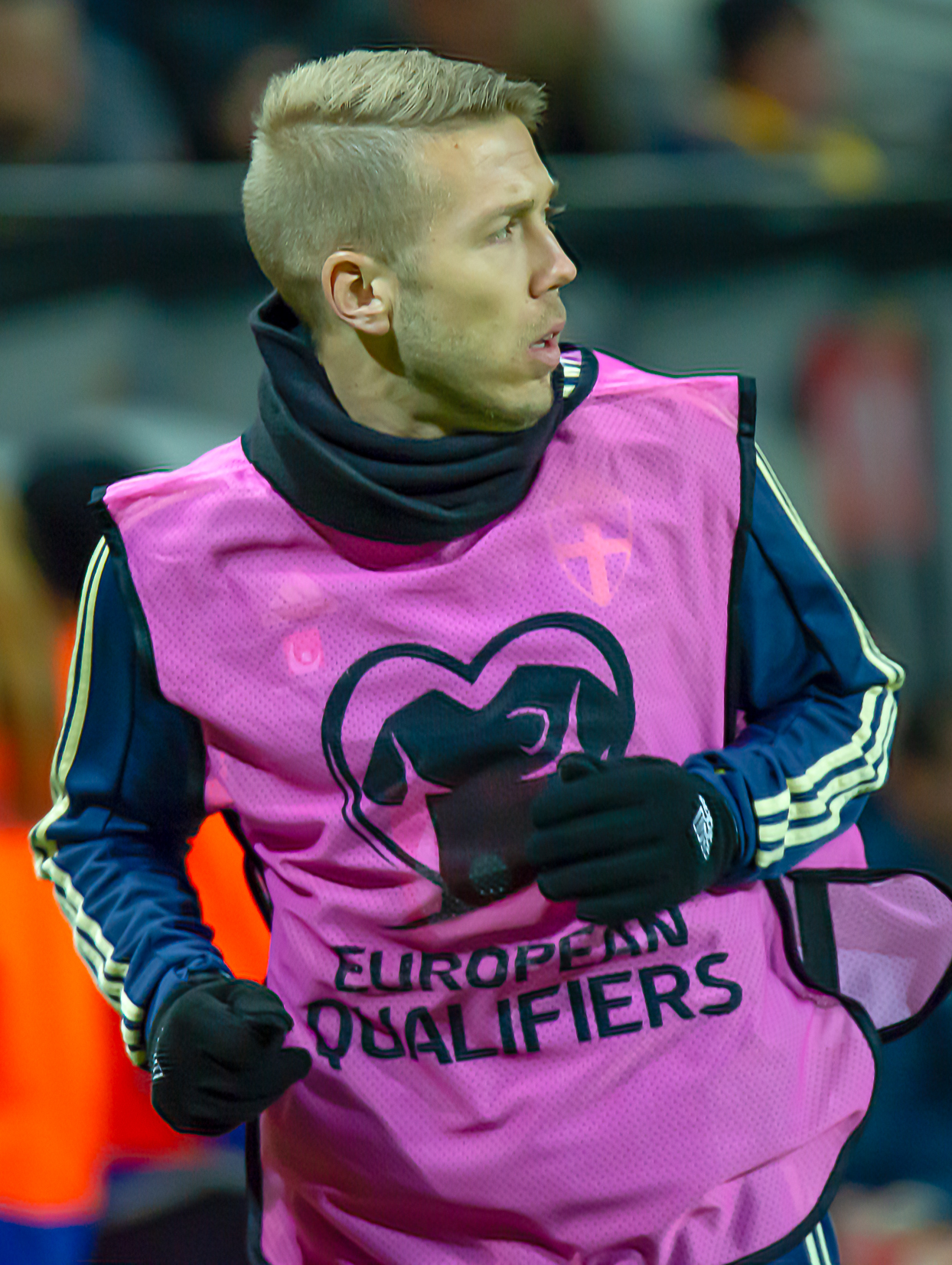 UEFA EURO qualifiers Sweden vs Romaina 20190323